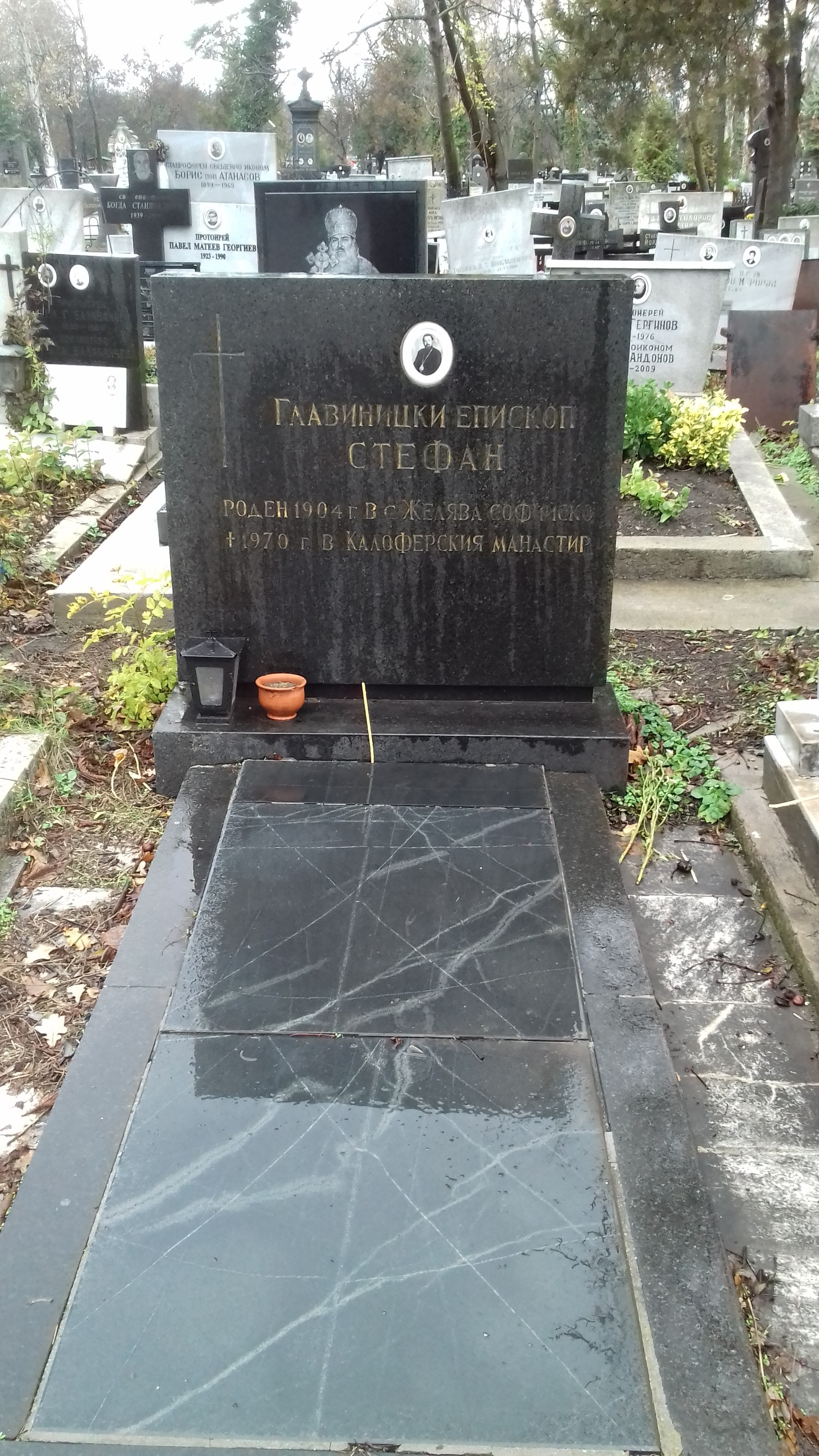 Stefan of Glavinitsa Grave